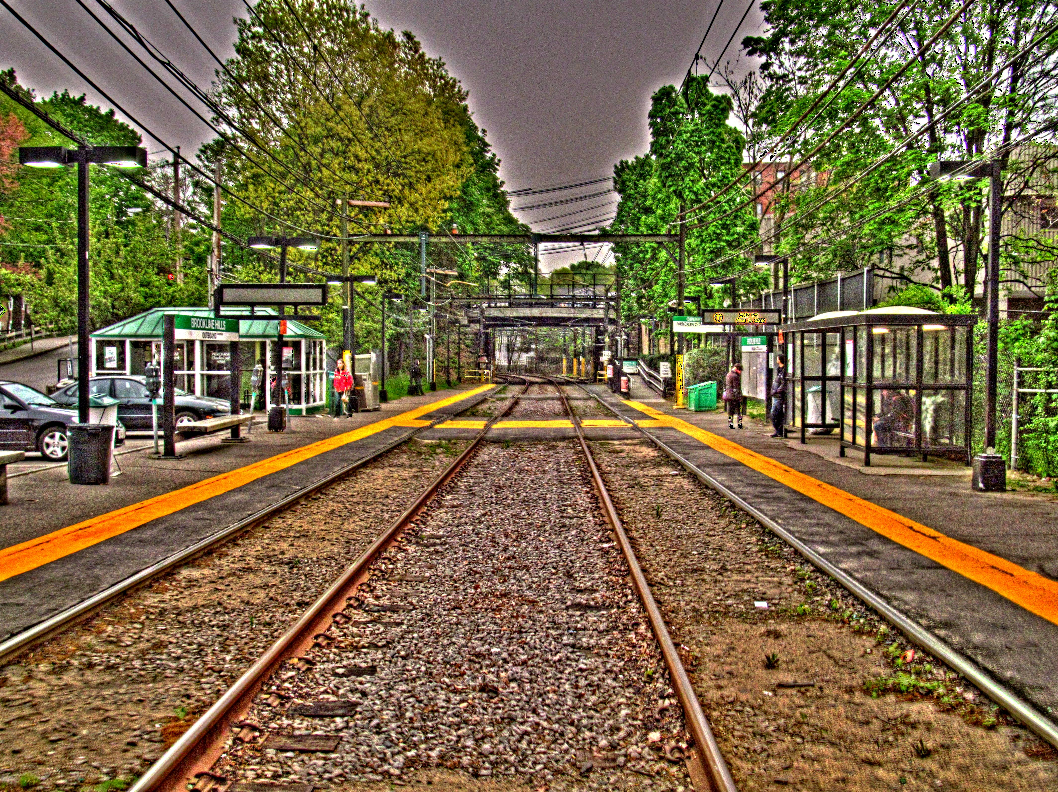 Looking inbound at Brookline Hills station on the Green Line "D" Branch. HDR stack of two images.